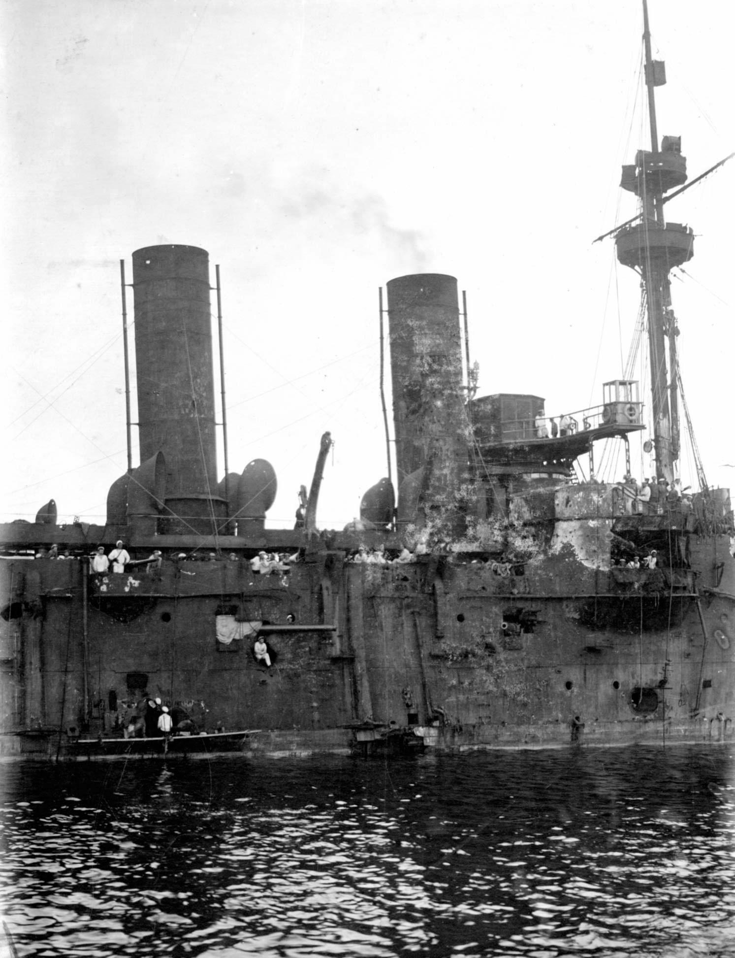 Close-up of amidships damage suffered by the Russian armored cruiser Rossia during the Battle of Ulsan.